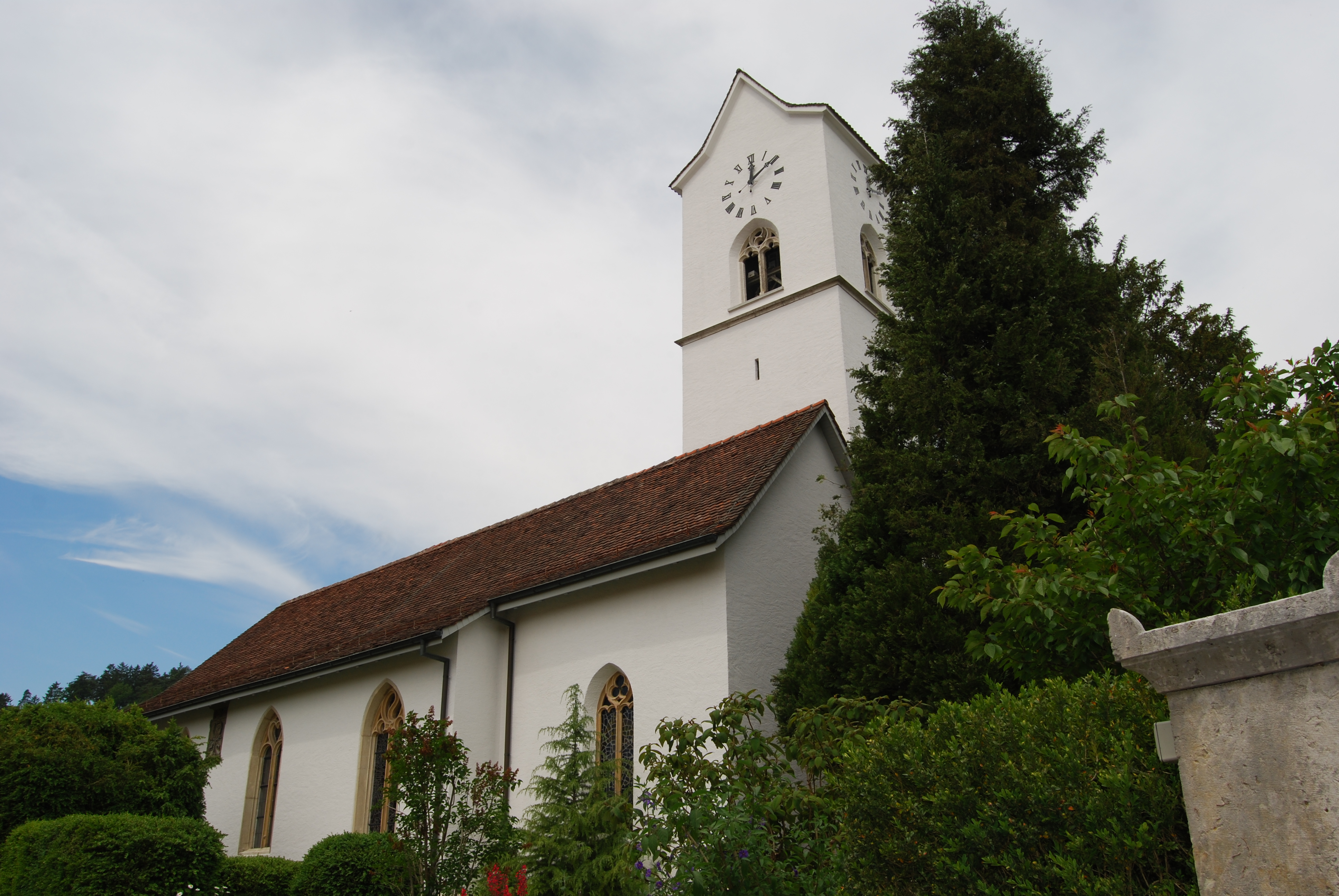 Protestant Church of Lengnau, canton of Bern, Switzerland